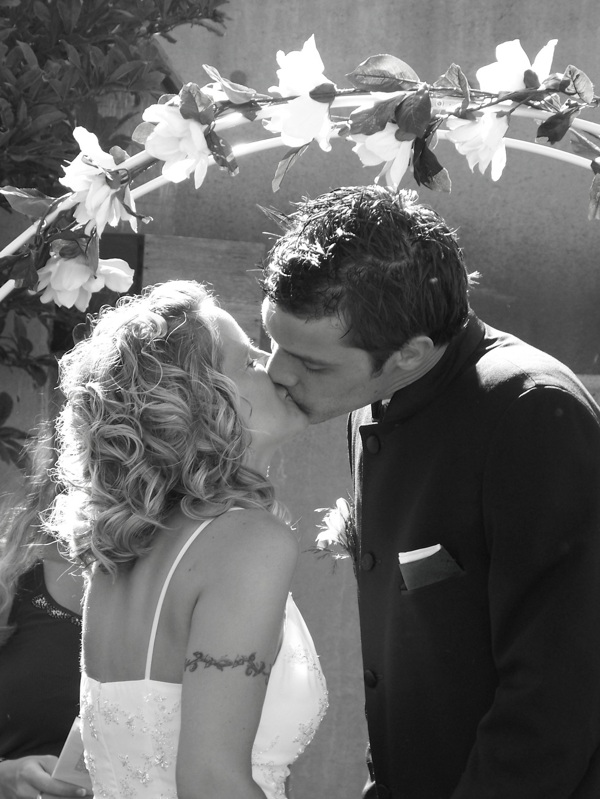 Kissing the bride